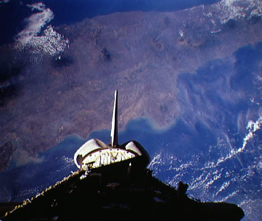 Merapi eruption (top left) photographed by NASA at mission STS-066